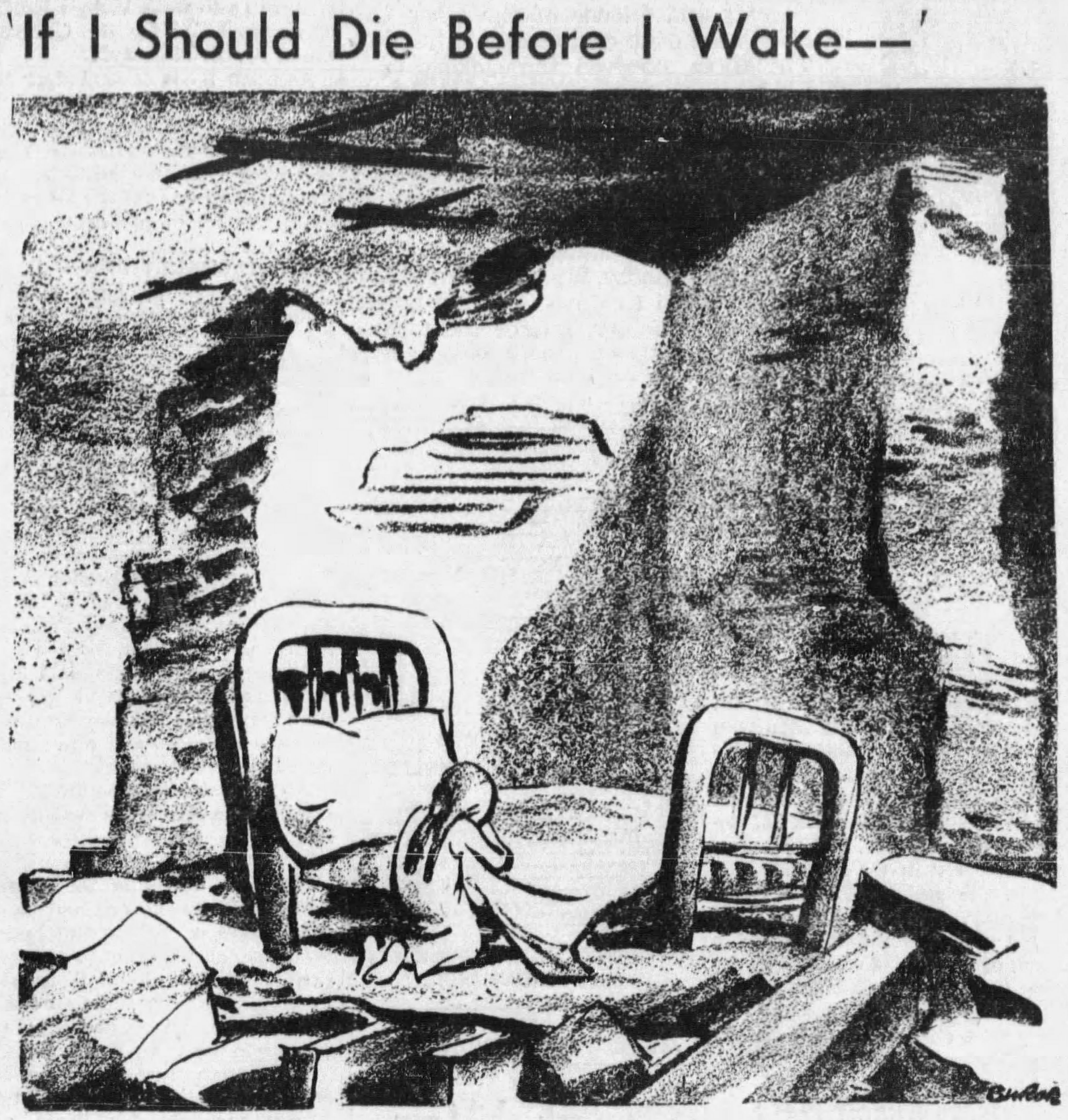 "If I Should Die Before I Wake", an editorial cartoon commenting on the destruction caused by World War II. Winner of the 1941 Pulitzer Prize for Editorial Cartooning.